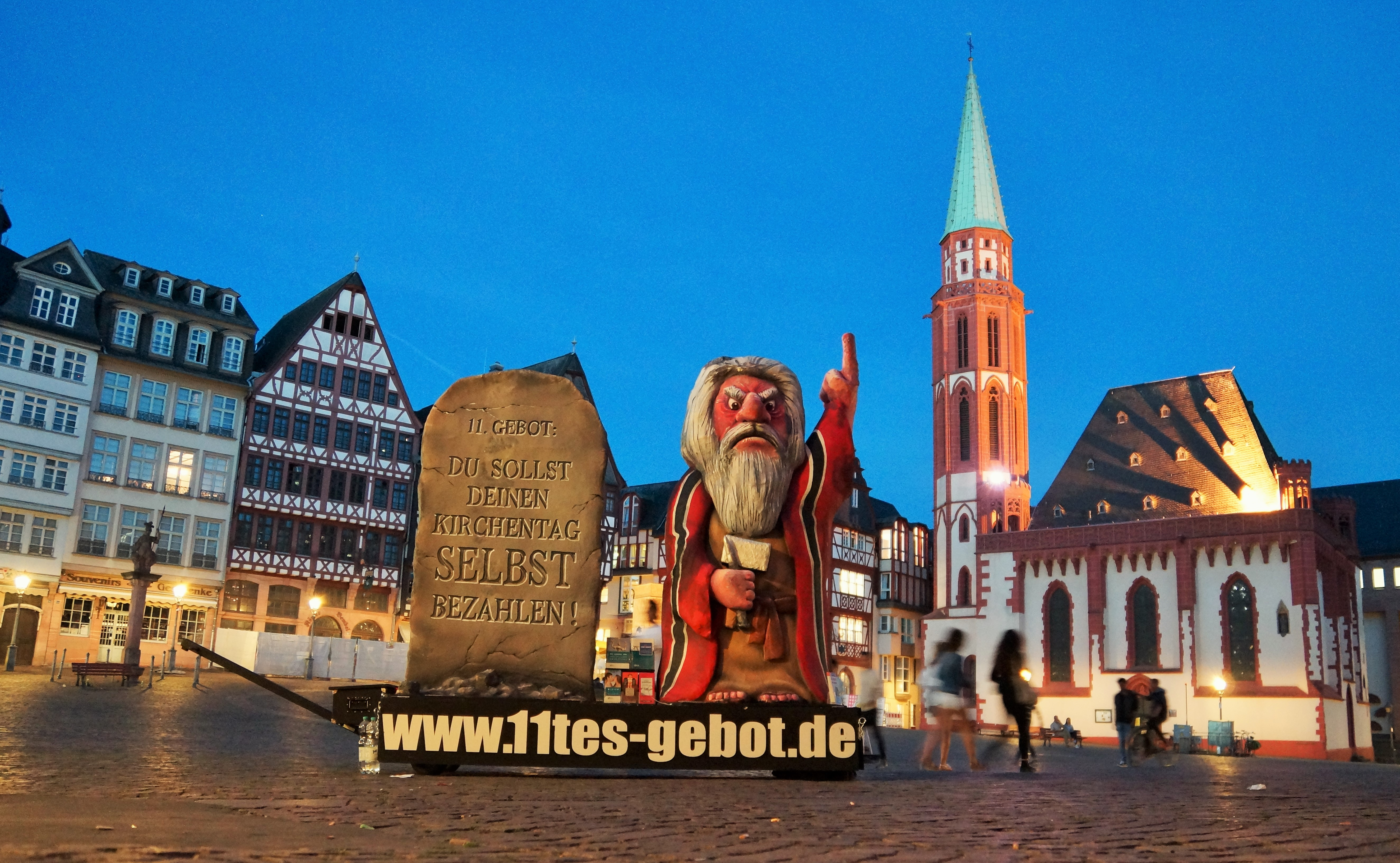 Criticism of church and churchday finance with "Moses 11. commandment" sculptures. On the Moses sculpture stands: "Thou shalt pay thy church-day self". At the 3th Ecumenical Church Day in Frankfurt, Germany